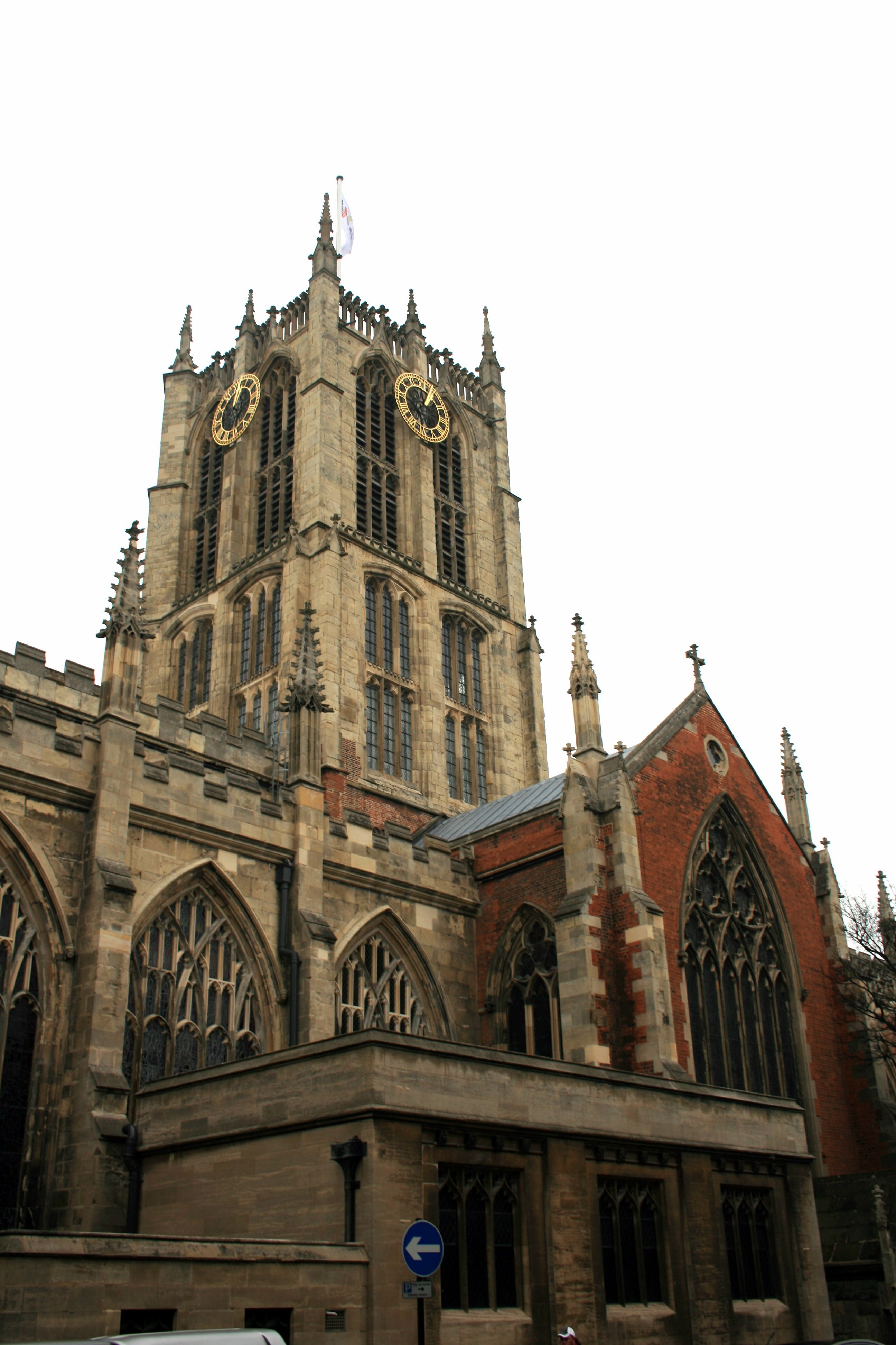 Photo's of Hull